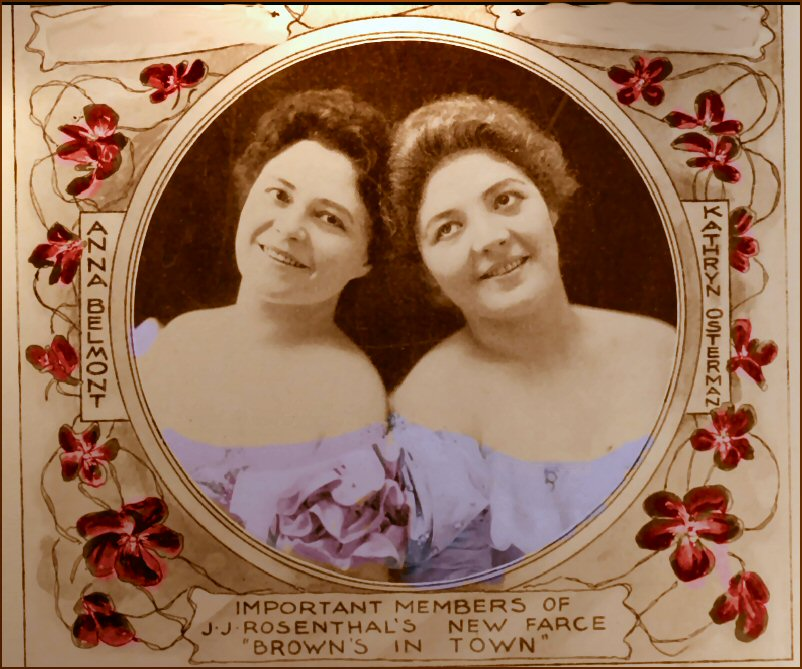 Two actresses from the production of J. J. Rosenthal's "Brown's in Town"